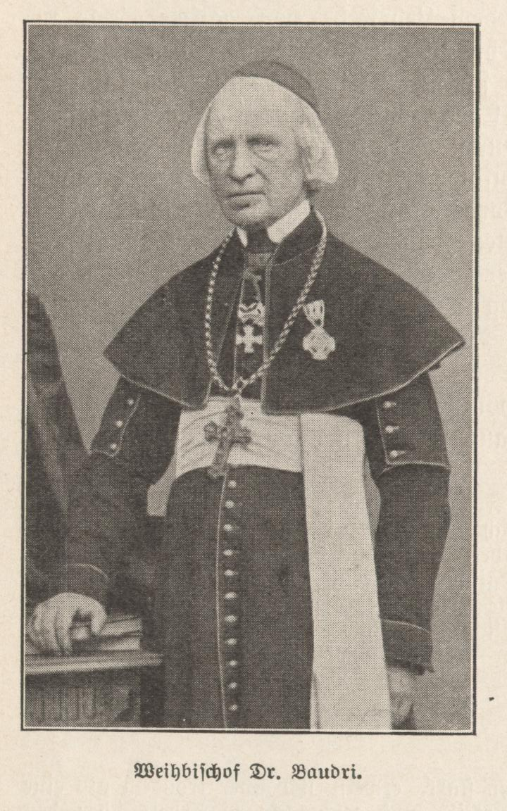 auxiliar bishop Dr. Baudri Cologne